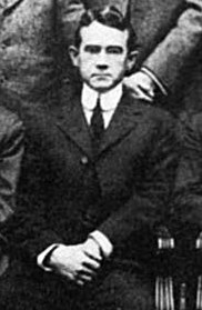 Photograph taken in 1919 of the chiefs and administrative heads of the New York Public Library. Top row (left to right): Henryk Arctowski, C. H. A. Bjerregaard, A. S. Friedus, Harry J. Grumpelt, Isabella M. Cooper, W. B. A. Taylor, Frank A. Waite, Mary Frank, Otto Kinkeldey, R. R. Finster, Henry C. Strippel, Avrahm Yarmolinsky. Center row: John Archer, John H. Fedeler, Florence Overton, I. Ferris Lockwood, Axel Moth, W. B. Gamble, Keyes D. Metcalf, R. W. Henderson, Frank Weitenkampf, Annie Carroll Moore, C. C. Williamson, V. H. Paltsits. Bottom row: Richard Gottheil, Annie C. Tompkins, Edmund L. Pearson, Wilberforce Eames, Charles F. McCombs, H. B. Lydenberg, E. H. Anderson, F. F. Hopper, Rose G. Murray, Lucille Goldthwaite, Alice Bunting, Lenore Power.